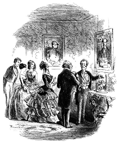 The Family Portraits at Mr. Bayham Badger's Phiz (Hablot K. Browne) 1853 Etching 4 1/8 x 4 1/8 inches on a page of 8 7/16 x 5 inches Facing p. 123 of Dickens's Bleak House